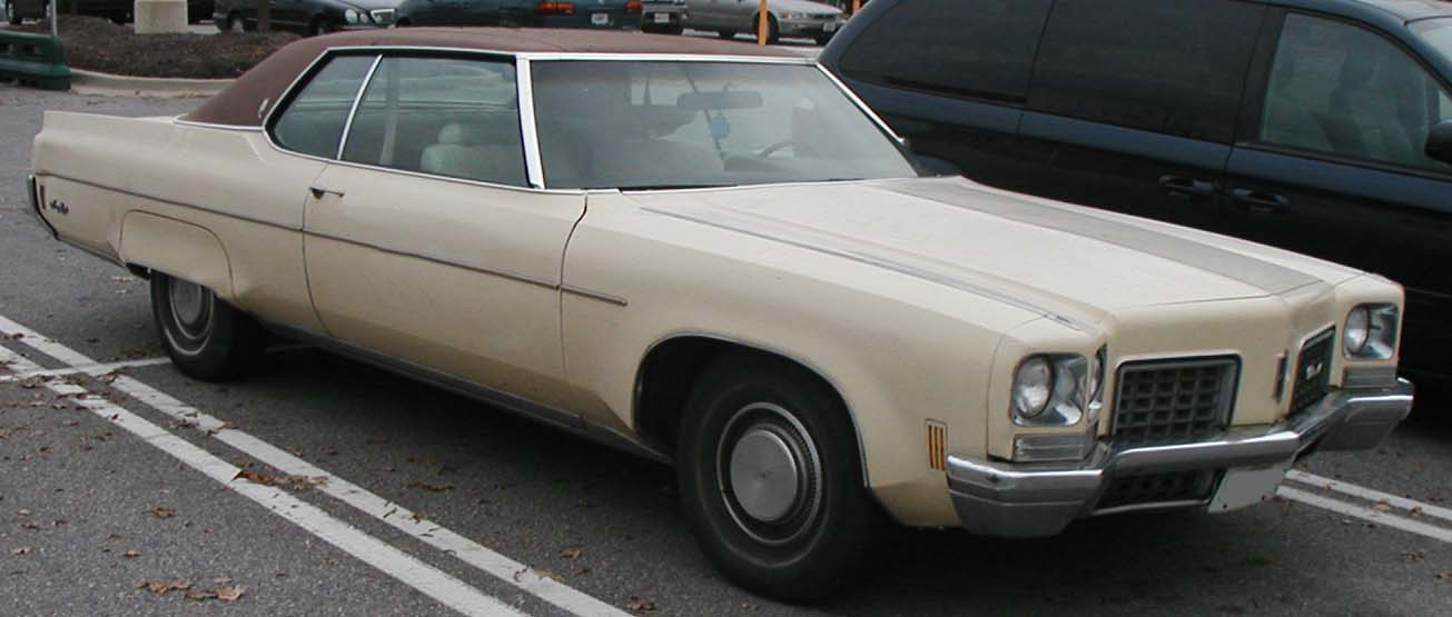 1972 Oldsmobile Ninety-Eight coupe photographed in USA.